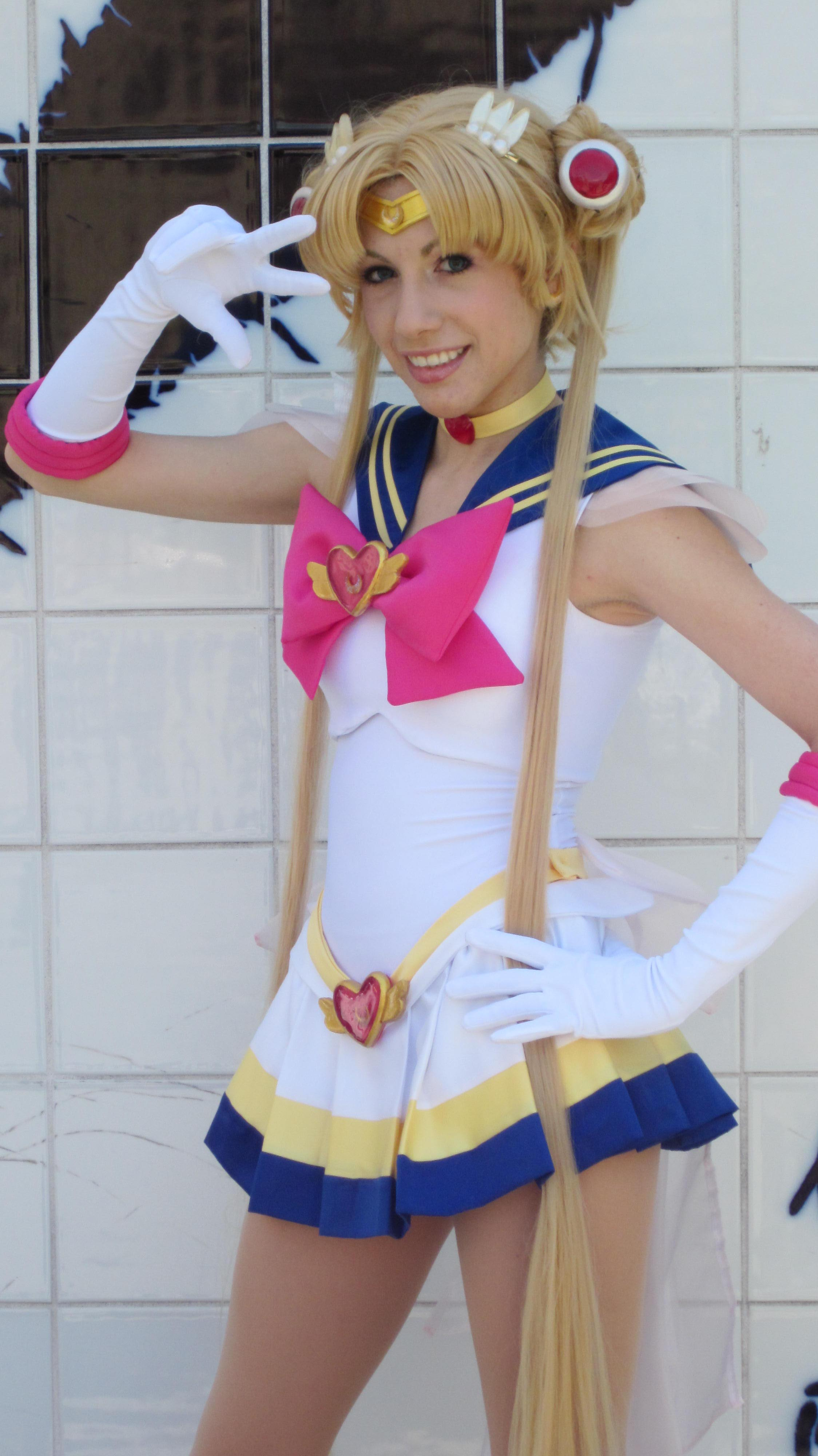 A cosplayers portraying Sailor Moon from Sailor Moon at FanimeCon in San Jose, California.